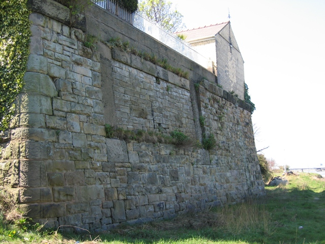 Stone Abutment for the Old Queensferry Bridge This massive stone structure is just west of the blue bascule bridge, which is just behind the camera. The first bridge at Queensferry was supported on this abutment, but was demolished when the blue bridge was built in 1926. The small building on top of the structure is associated with the row of houses that are built alongside the old roadway. The River Dee is on the right, and in the far distance is the Hawarden Bridge railway bridge that crosses the river at Shotton.